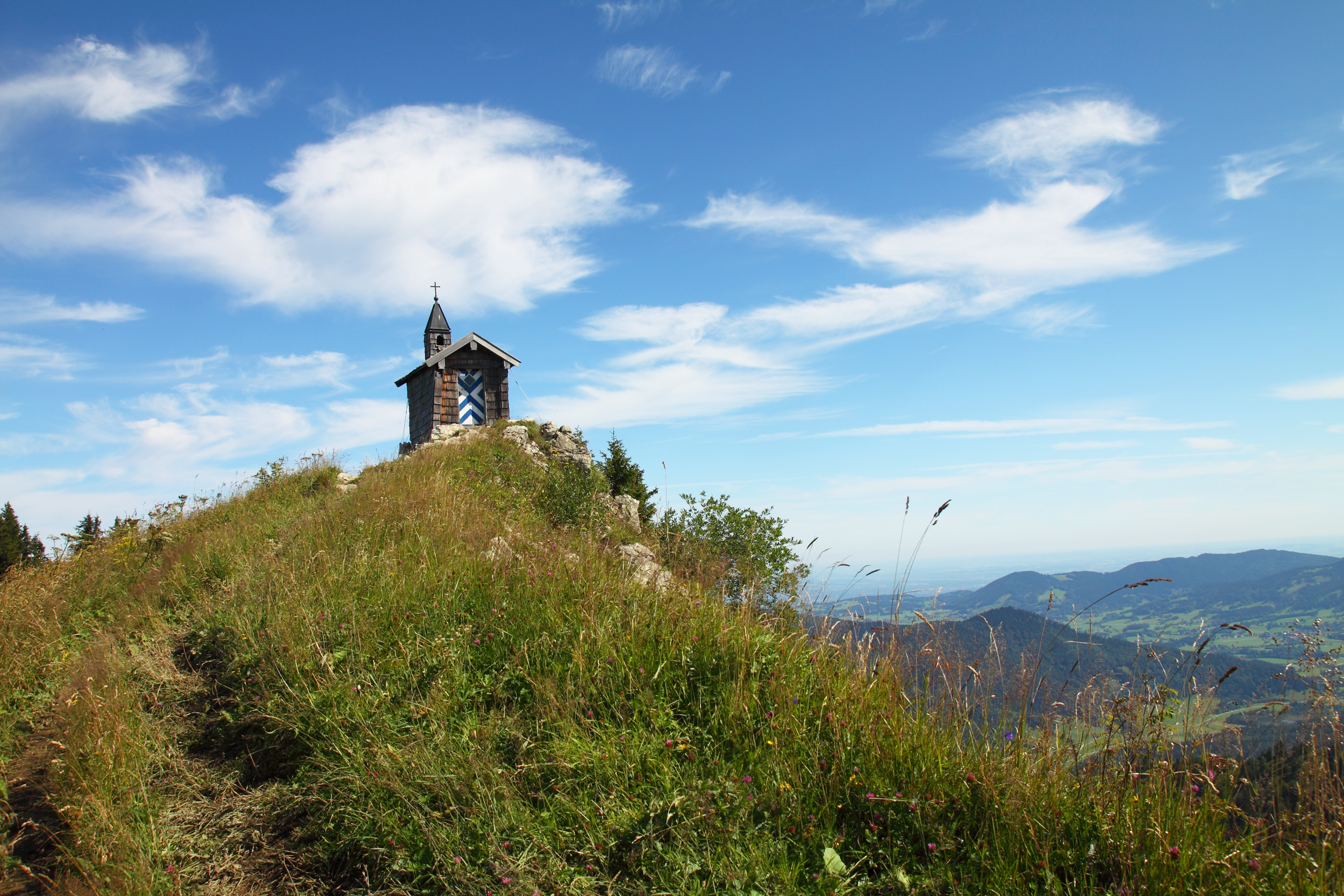 small chapel on the western arête of the Brecherspitz in the Spitzingsee-region in Bavaria